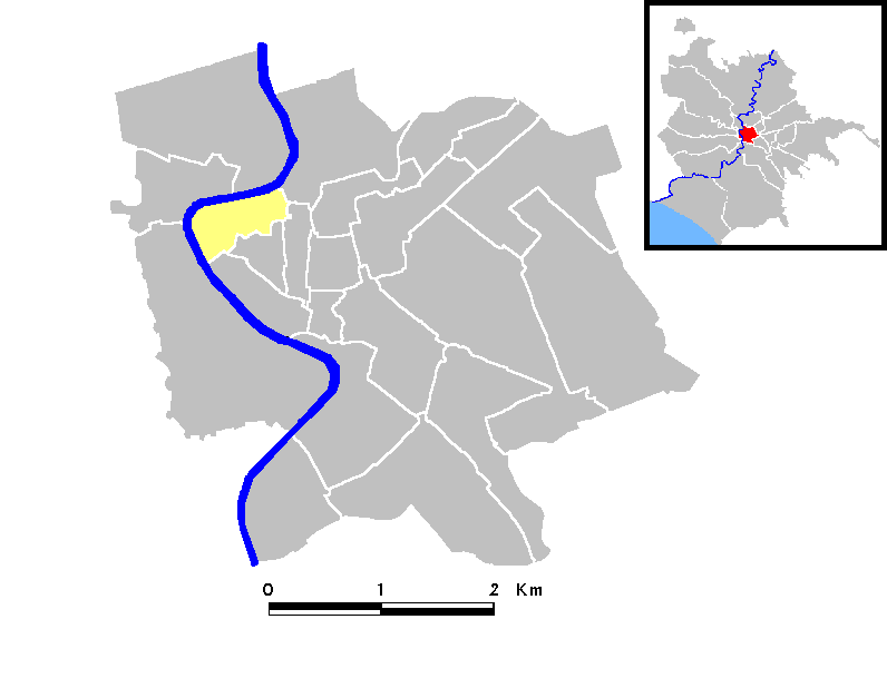 Locator maps of Rome (rioni)